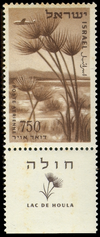 Airmail 1956 stamp- 750 mil, Second definitive series (additional denominations). Inscription on tab: "The Hula Lake".